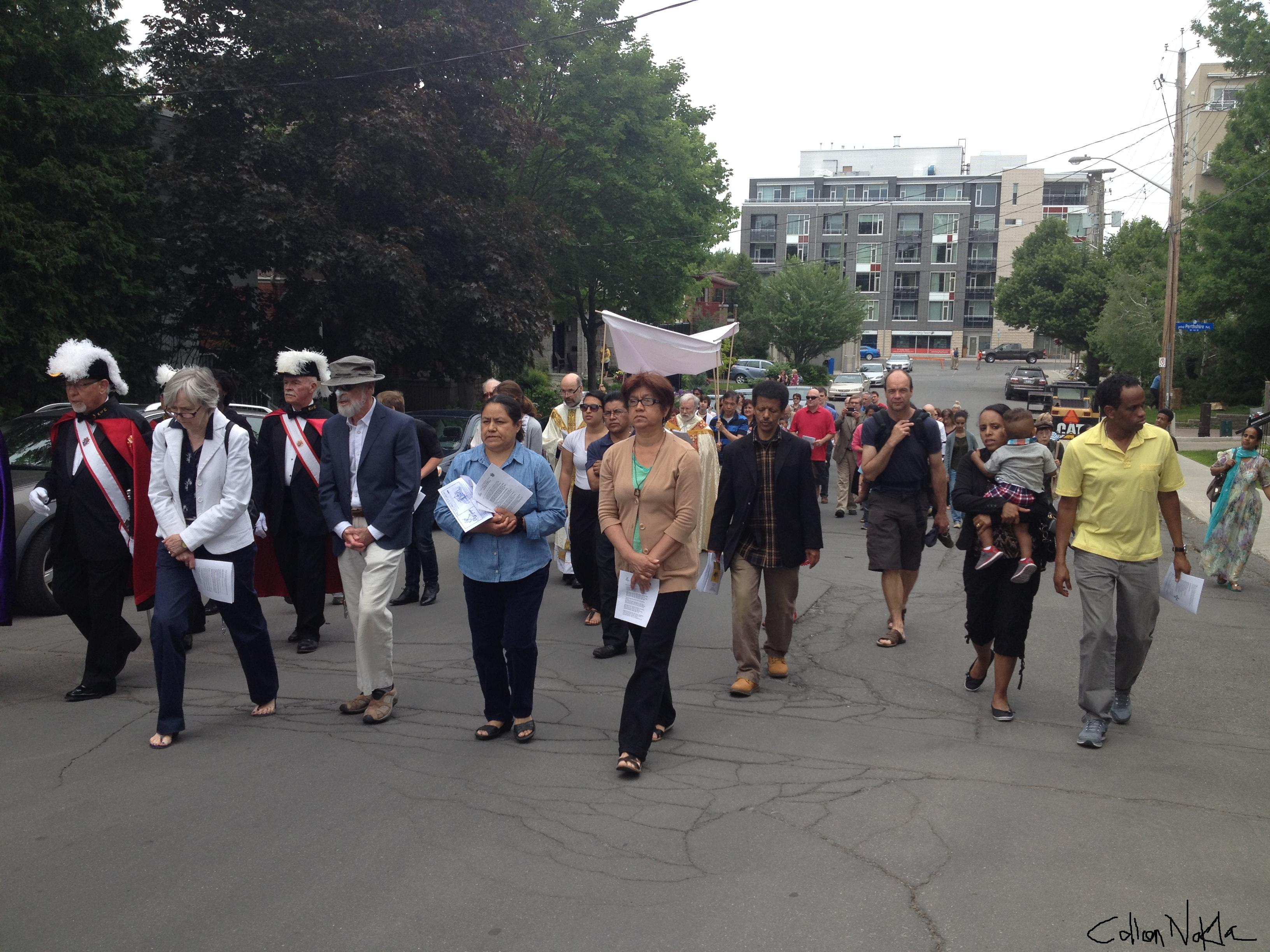 The procession in Piccadilly Avenue, approaching the final altar in front of St George's Church